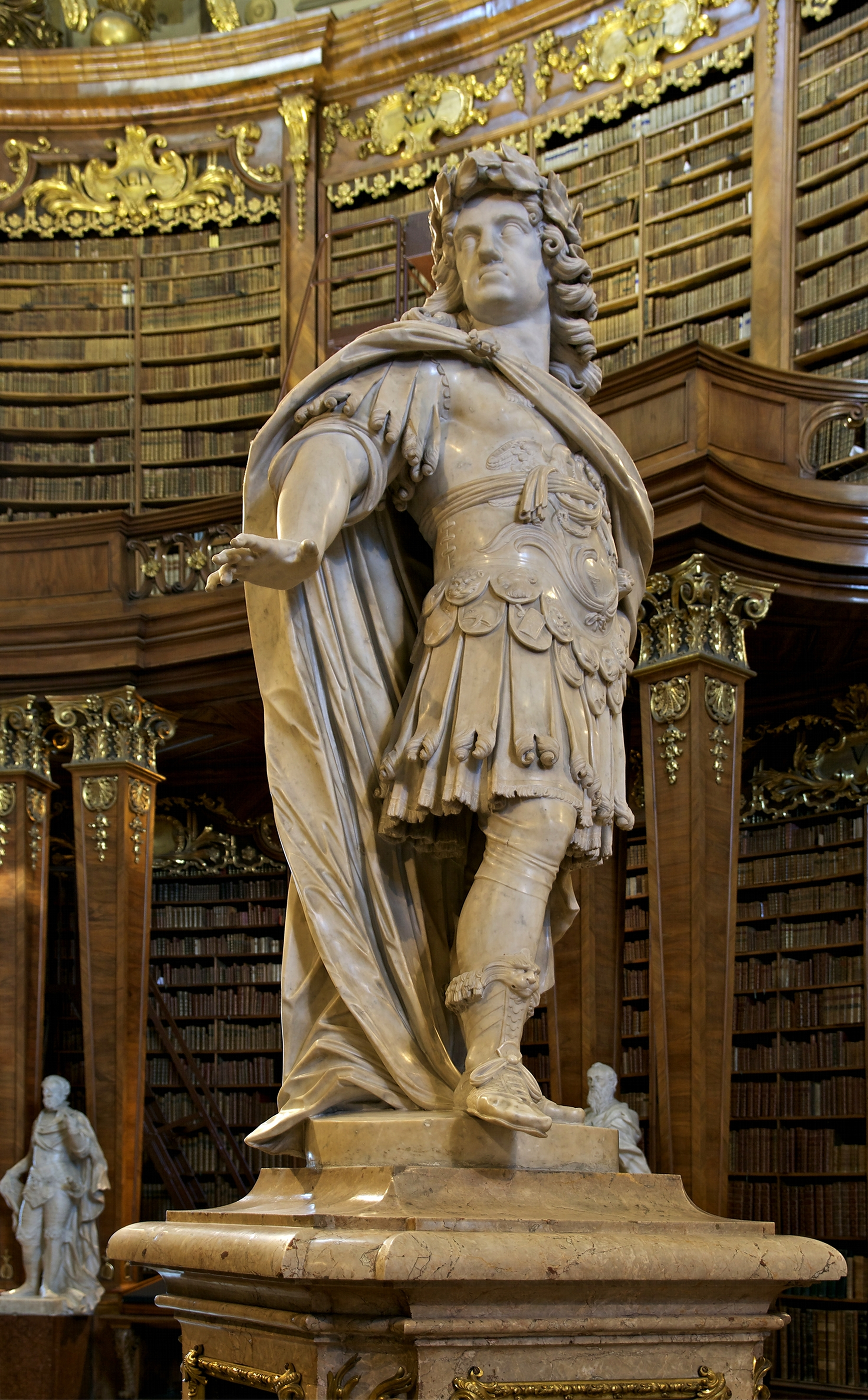 Statue to Charles VI, Holy Roman Emperor, by Antonio Corradini, at the center of the "Prunksaal", the State Hall of the National Library he founded, in Vienna, Austria.